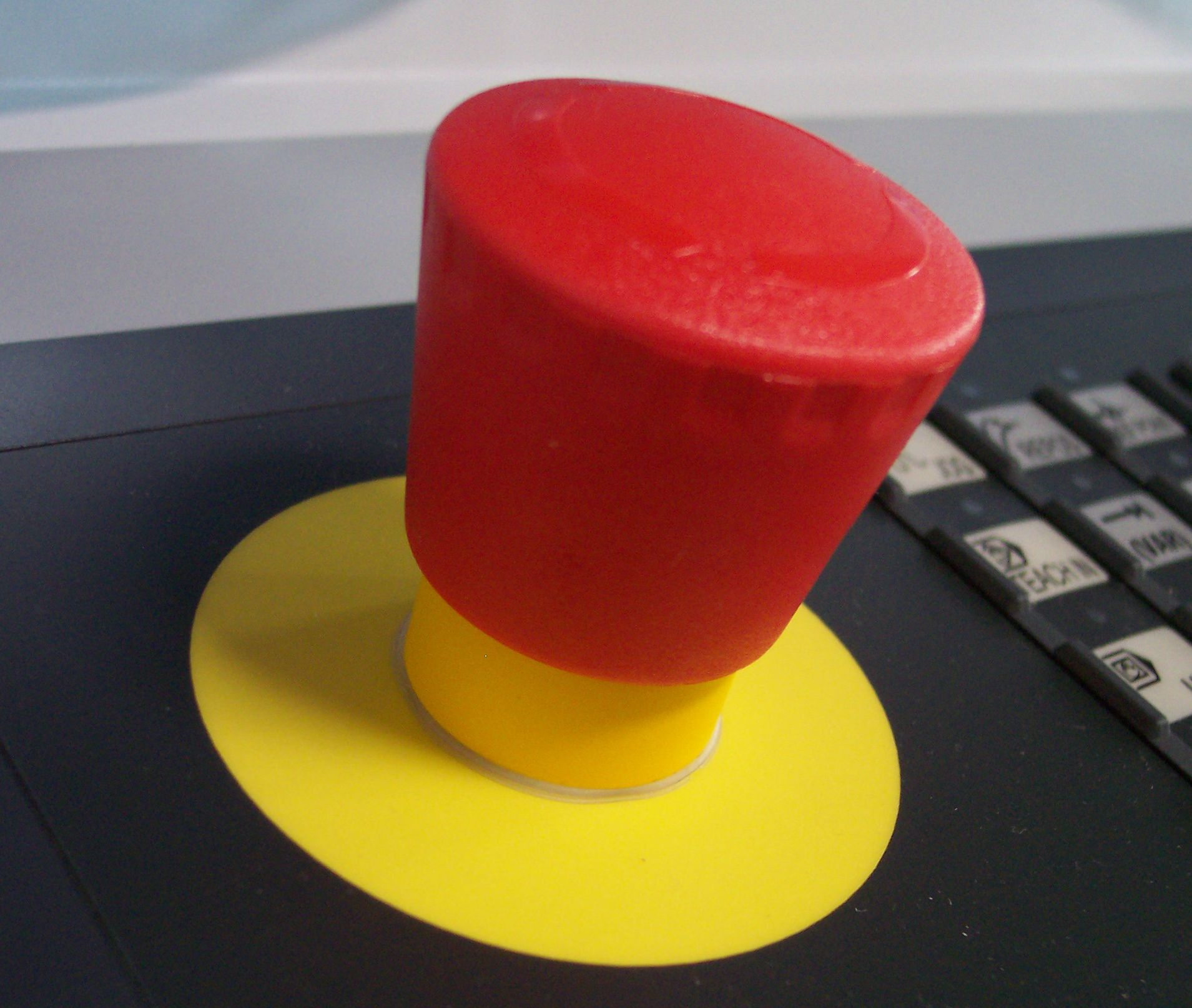 Emergency_Off_Button